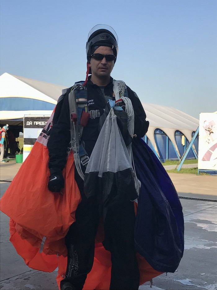 Dobromir Slavchev Aerograd Kolomna, Moscow